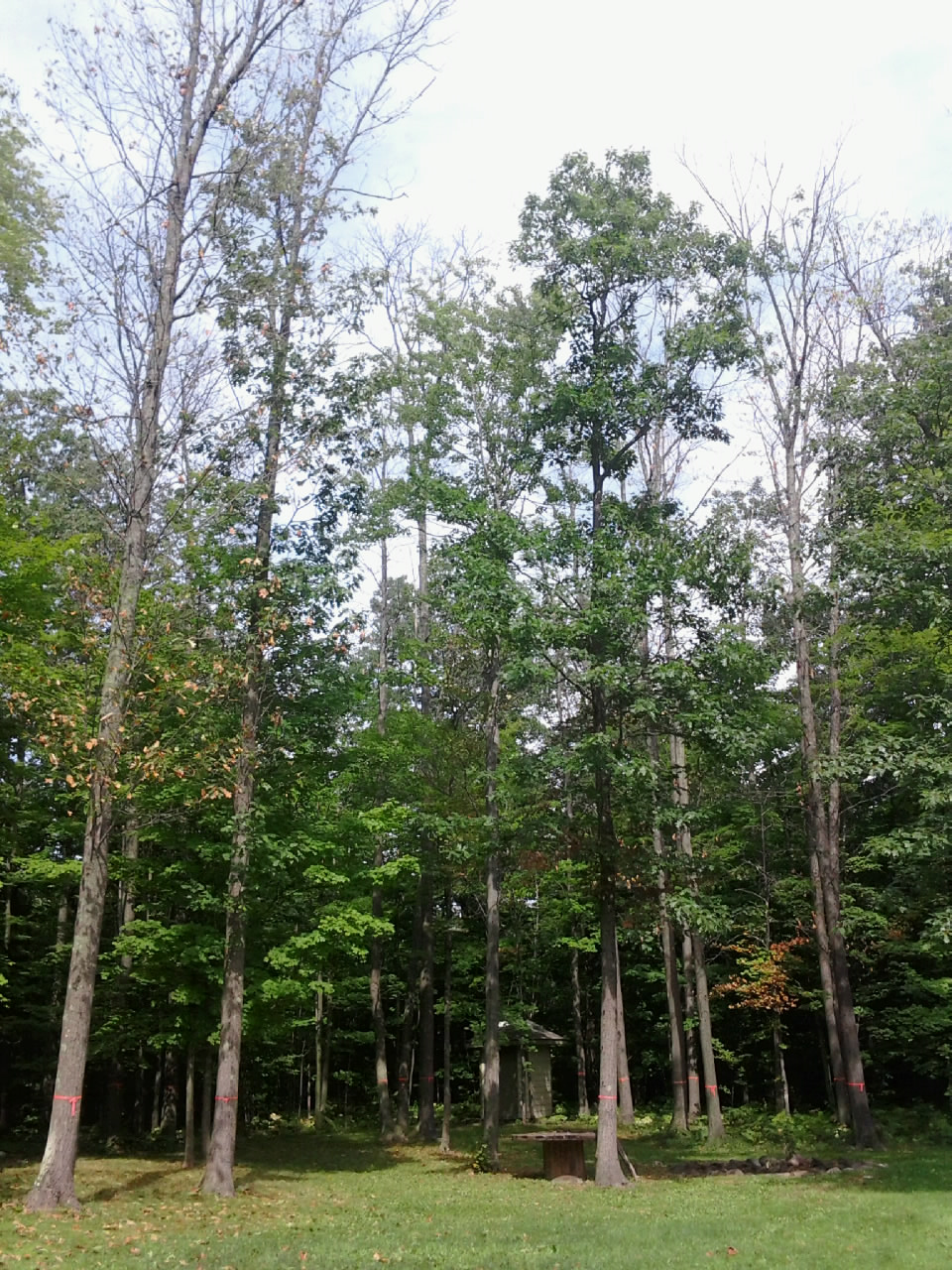 Part of Northern Flank of 7-1-2011 windstorm was northern Pine County and Carlton County, Minnesota.